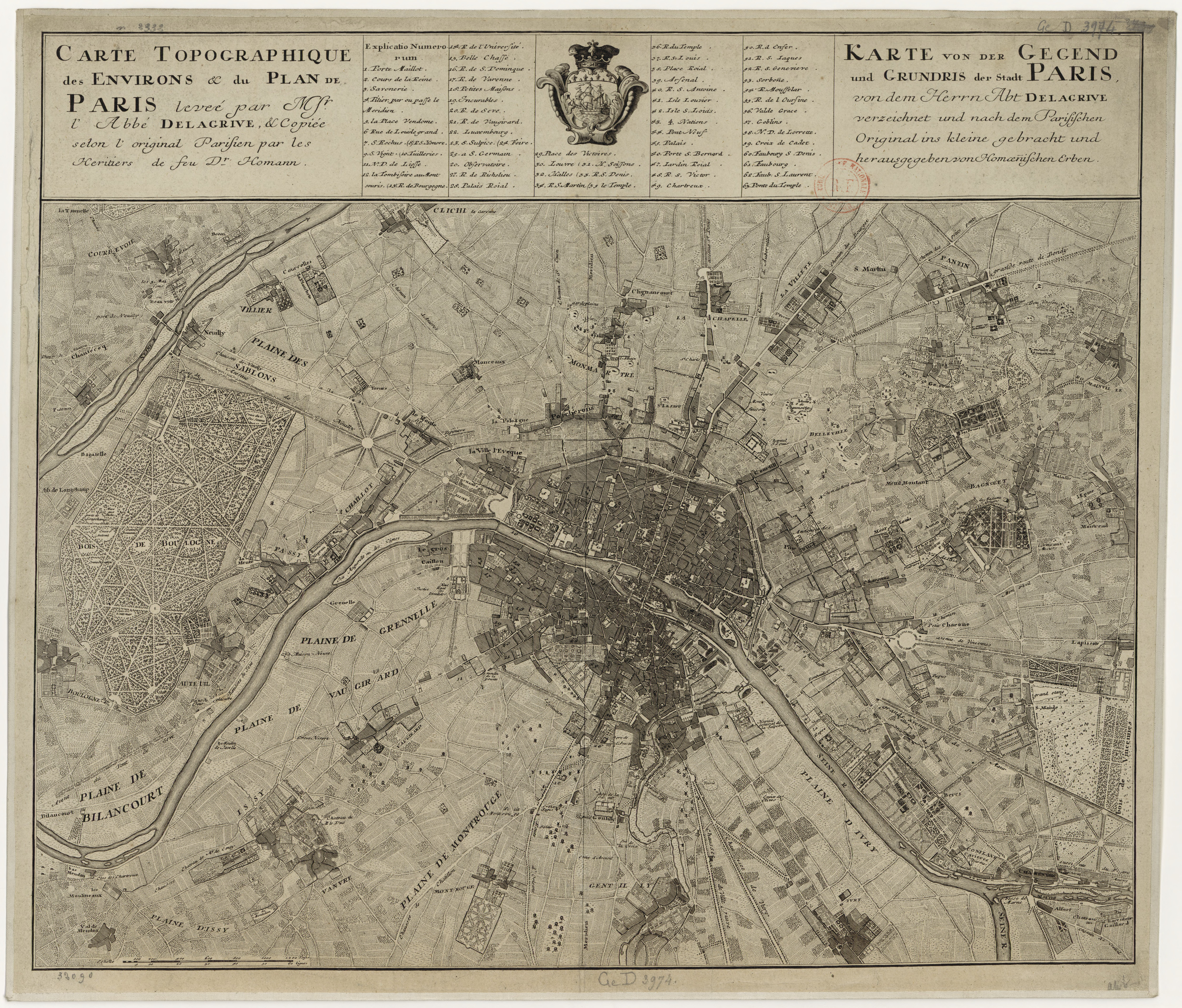 City maps; Coats of arms; Paris